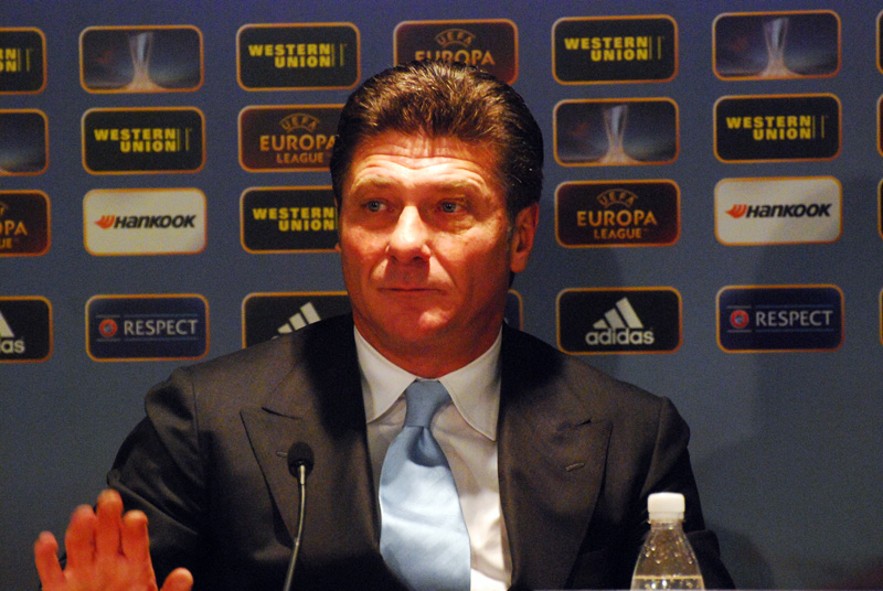 A photo of Walter Mazzarri after AIK-Napoli in 2012.